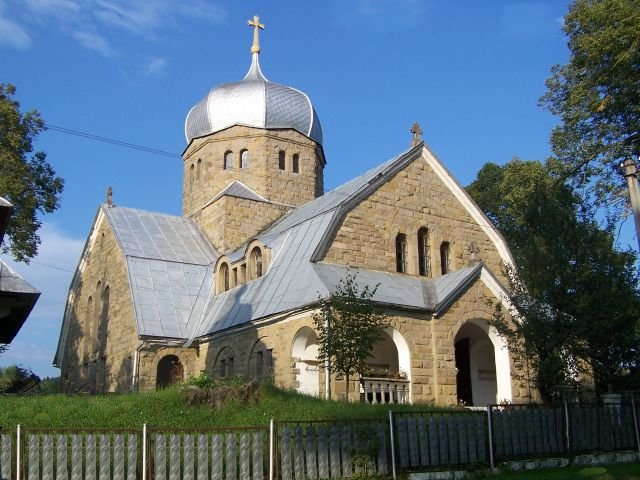 Church of the Holy Spirit, Borynia